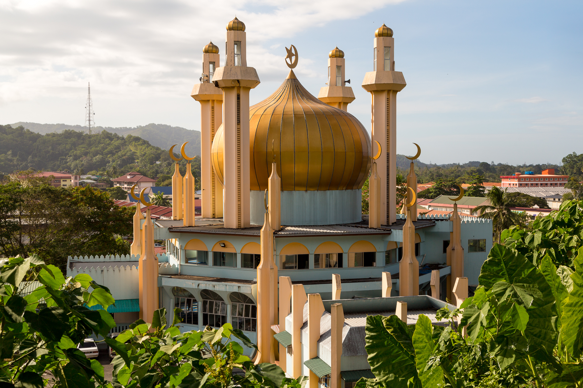 Kota Belud, Sabah: Kota Belud Mosque